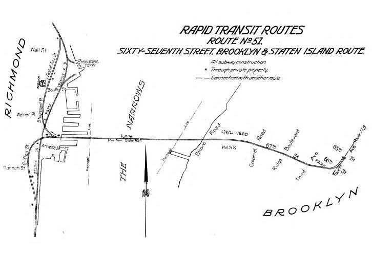 A 1912 schematic detailing plans to connect the BMT Fourth Avenue Line to the North and Main Lines of the Staten Island Railroad.